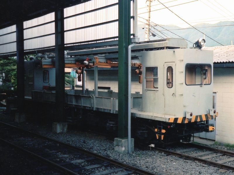 Hakone Tozan Railway Type Moni-1 at Gora Sta.